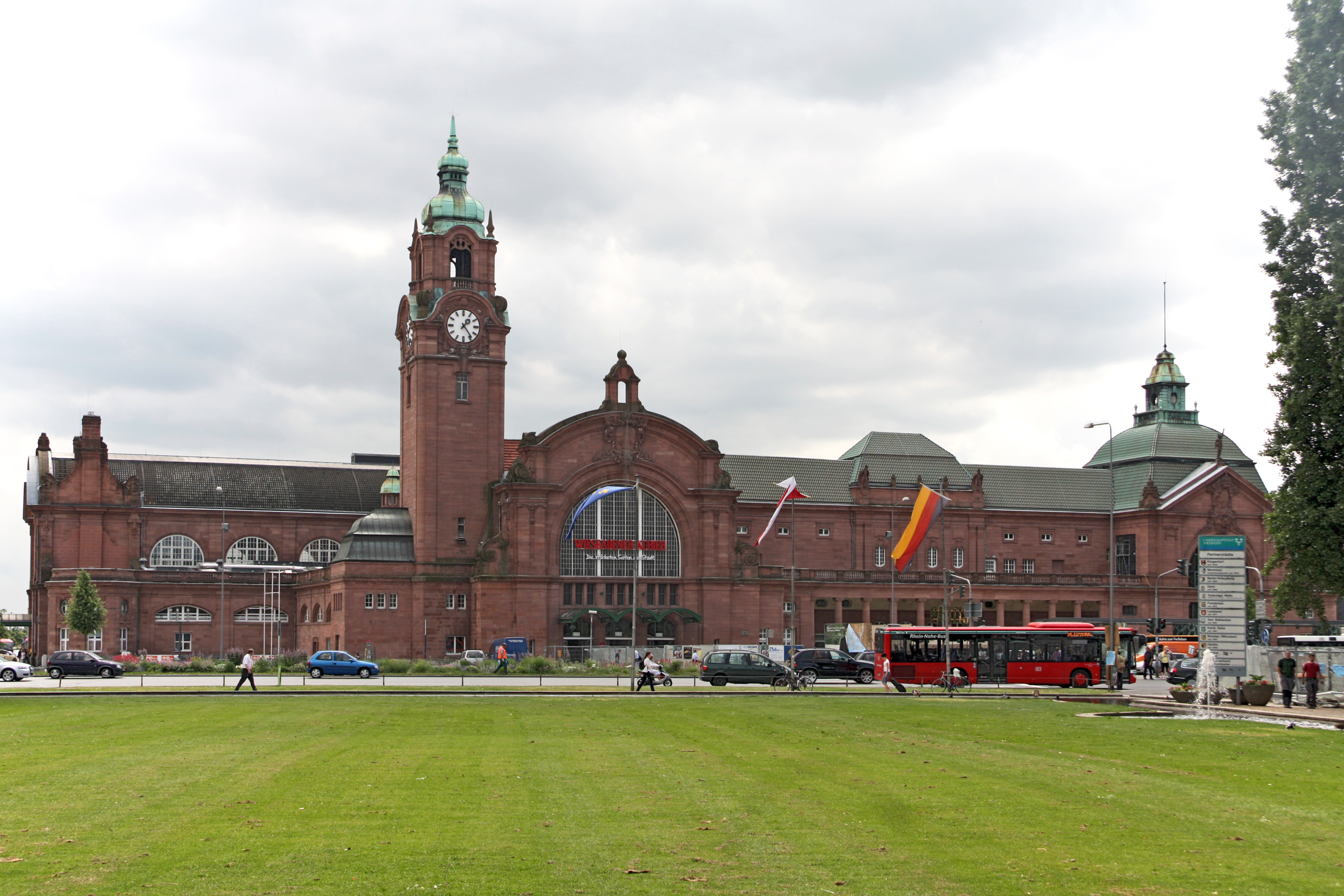 Wiesbaden Hauptbahnhof